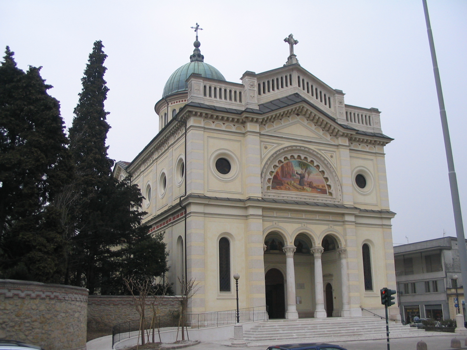 Batch Photo By wanblee